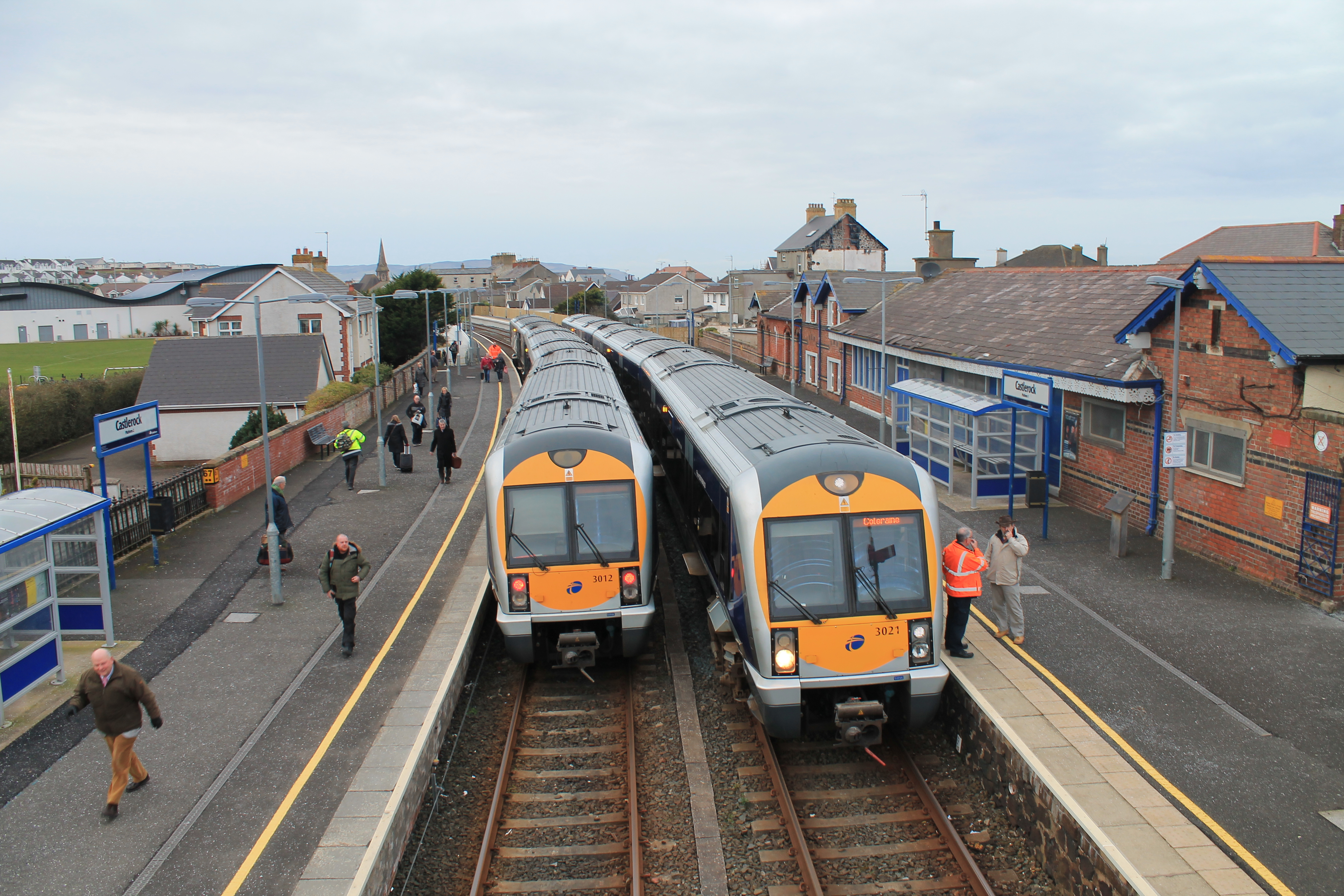 Two C3K pass one another at Castlerock station